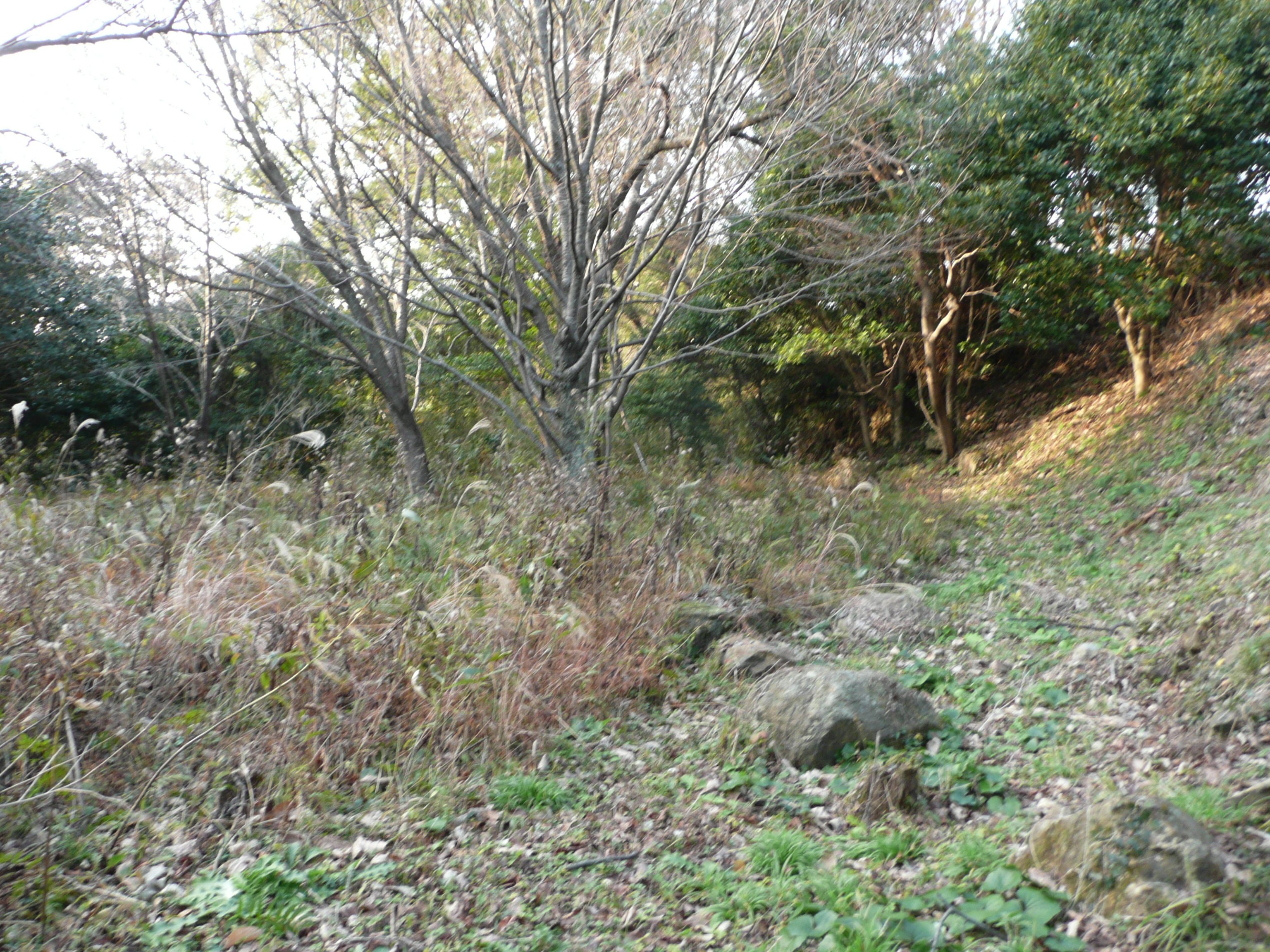 出丸